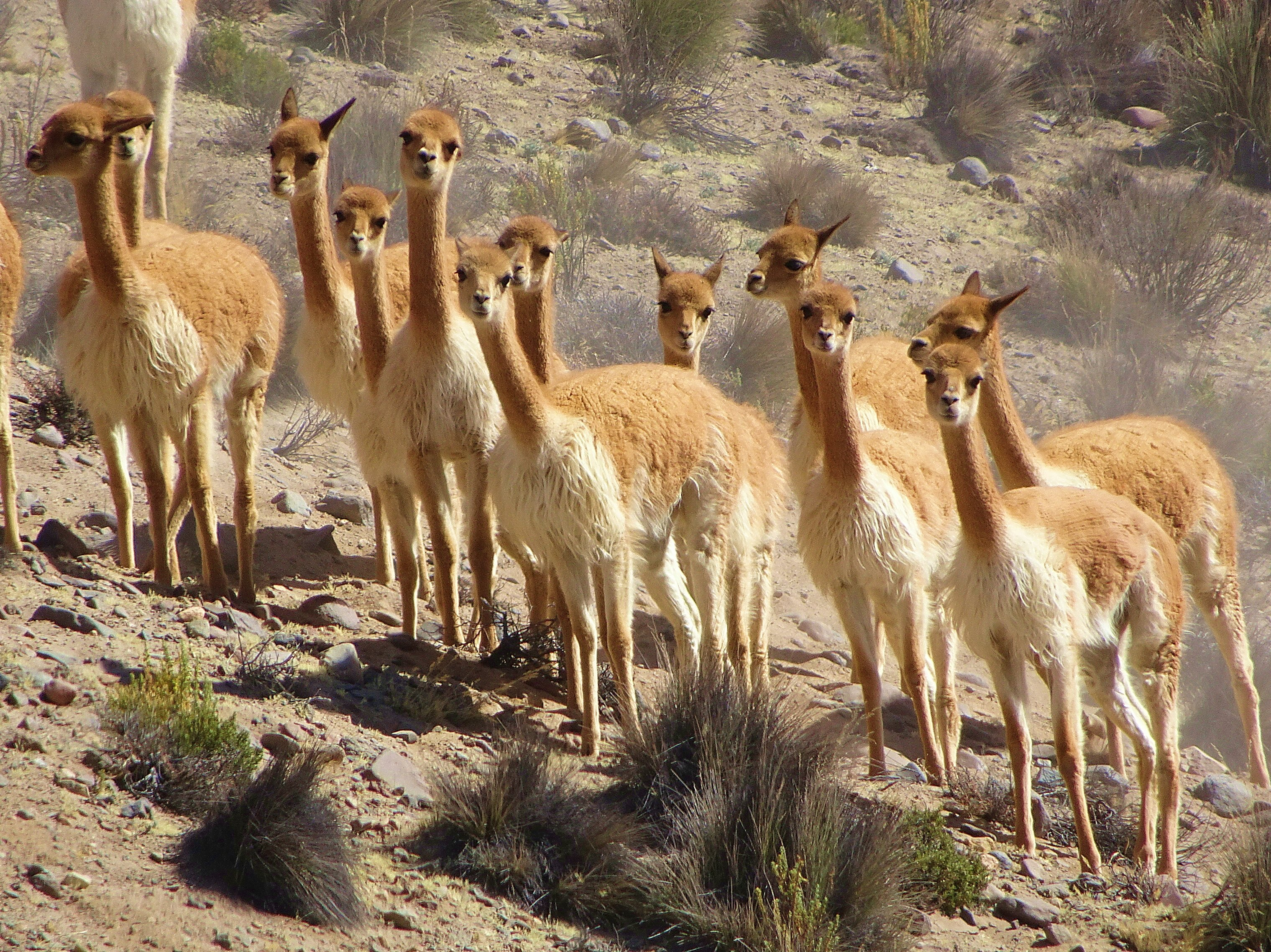 This group of vicuña stopped near the highway between Arequipa and Puno, Peru. Elevation at this point was around 12,000 ft.